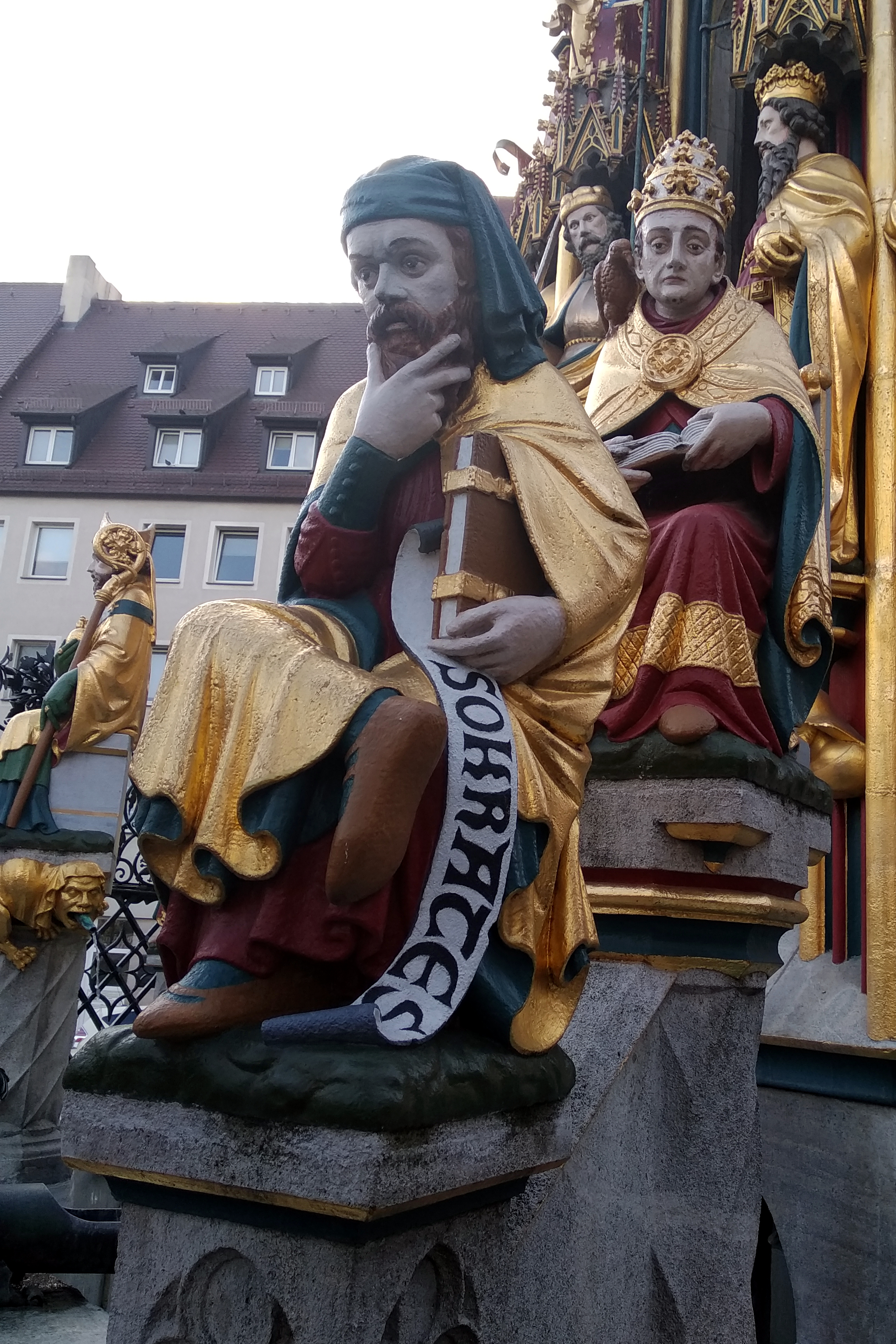 Detail of the Schöner Brunnen, Nuremberg